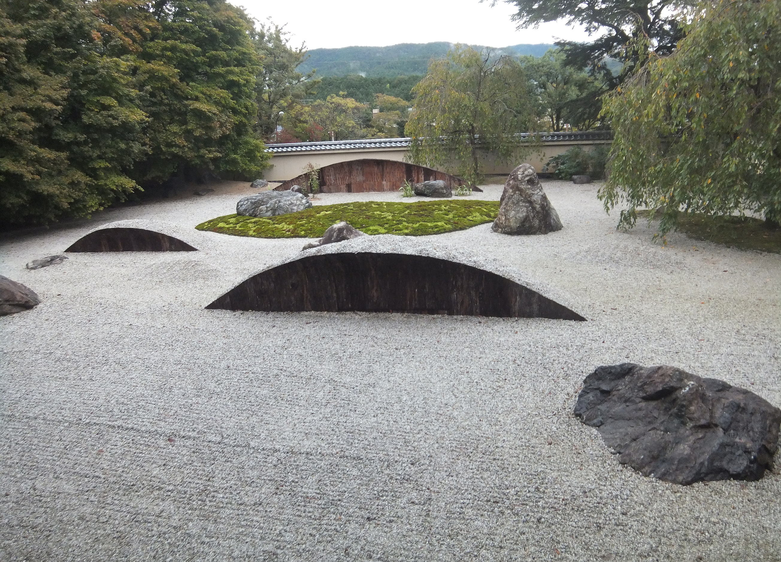 Stone Garden of the Jissō-in Temple in Iwakura (Kyōto, Japan).